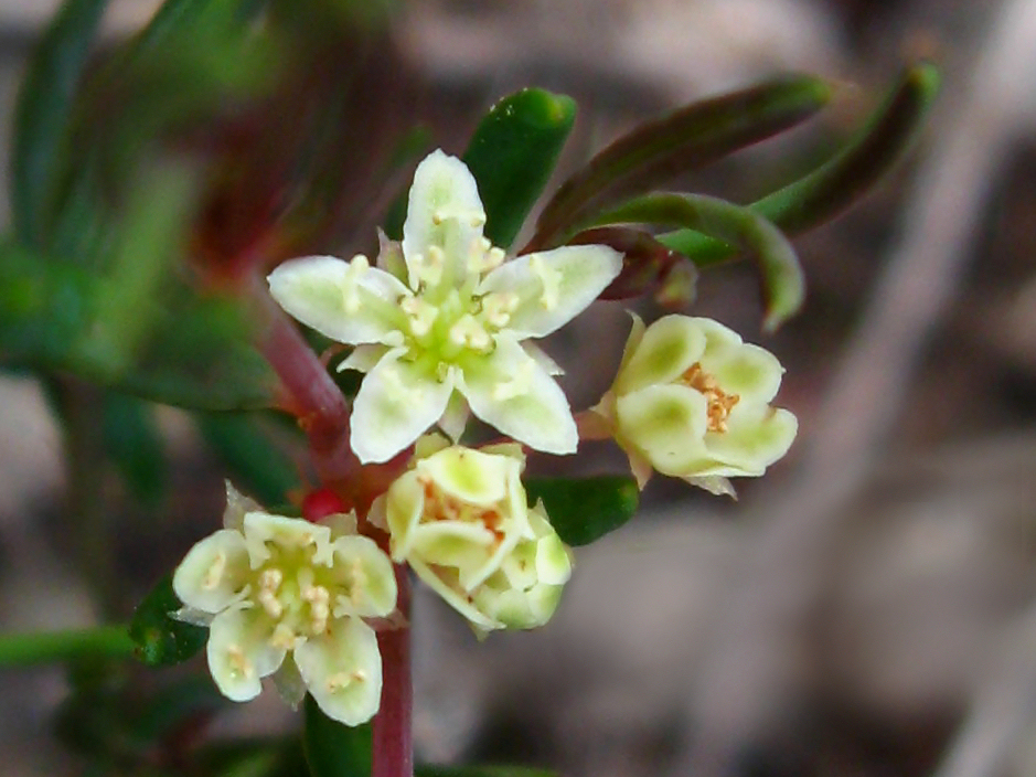 Flowers of Monotaxis grandiflora, taken in Bold Park, Perth, WA.